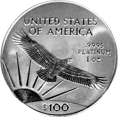 Removed background, cropped, and converted to PNG with Macromedia Fireworks. This image depicts a unit of currency issued by the United States of America. If Fraudulent use of this image is punishable under applicable counterfeiting laws. As listed by the United States Secret Service at money illustrations, the Counterfeit Detection Act of 1992, Public Law 102-550, in Section 411 of Title 31 of the Code of Federal Regulations (31 CFR 411), permits color illustrations of U.S. currency provided:1. The illustration is of a size less than three-fourths or more than one and one-half, in linear dimension, of each part of the item illustrated;2. The illustration is one-sided; and3. All negatives, plates, positives, digitized storage medium, graphic files, magnetic medium, optical storage devices, and any other thing used in the making of the illustration that contain an image of the illustration or any part thereof are destroyed and/or deleted or erased after their final use. Certain coins contain copyrights licensed to the U.S. Mint and owned by third parties or assigned to and owned by the U.S. Mint [1]. For the United States Mint circulating coin design use policy, see [2]; for the policy on the 50 State Quarters, see [3]. Also: COM:ART #Photograph of an old coin found on the Internet